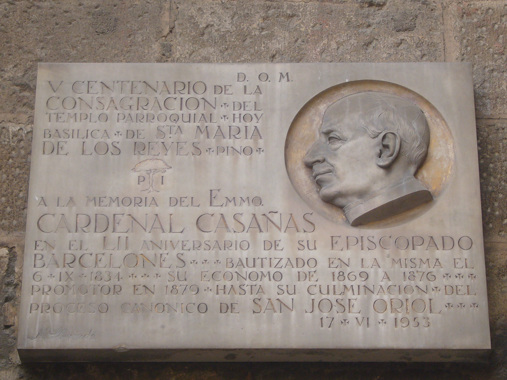 Cardinal Casañas in Santa Maria del Pi, Barcelona